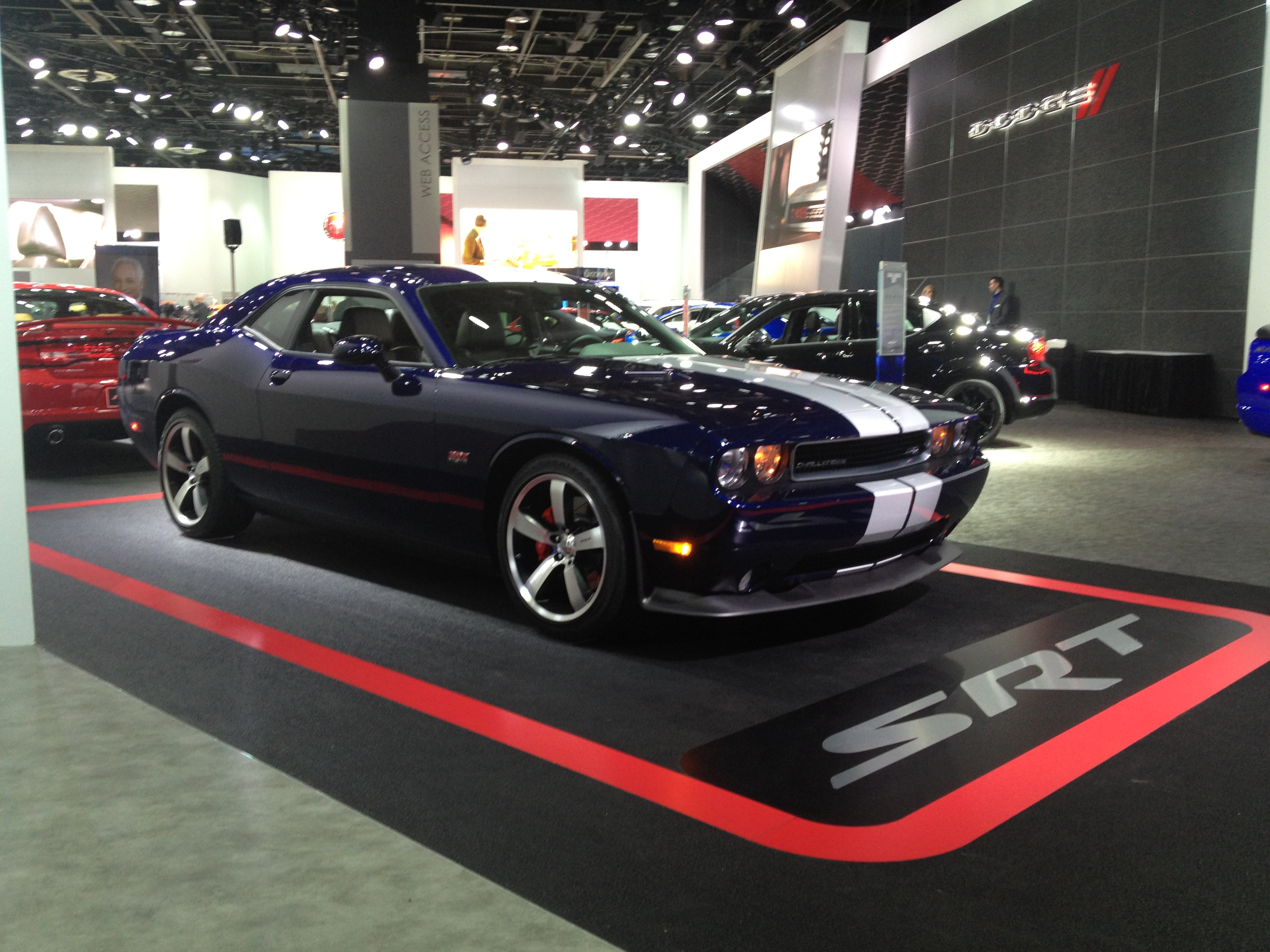 2013 North American International Auto Show Detroit, Michigan